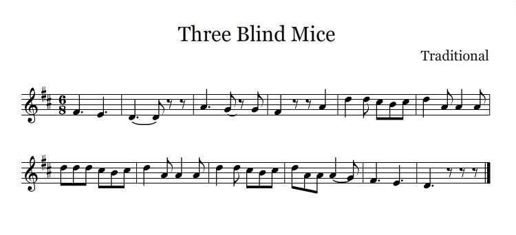 "The main melody of Three Blind Mice"